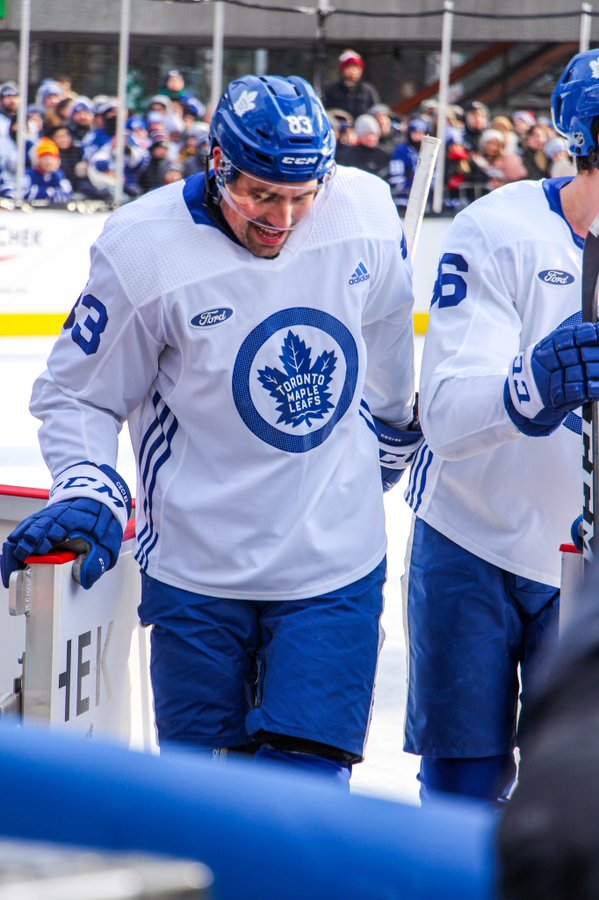 Cody Ceci at Toronto Maple Leafs Outdoor Practice.